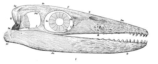 crop of file in file name